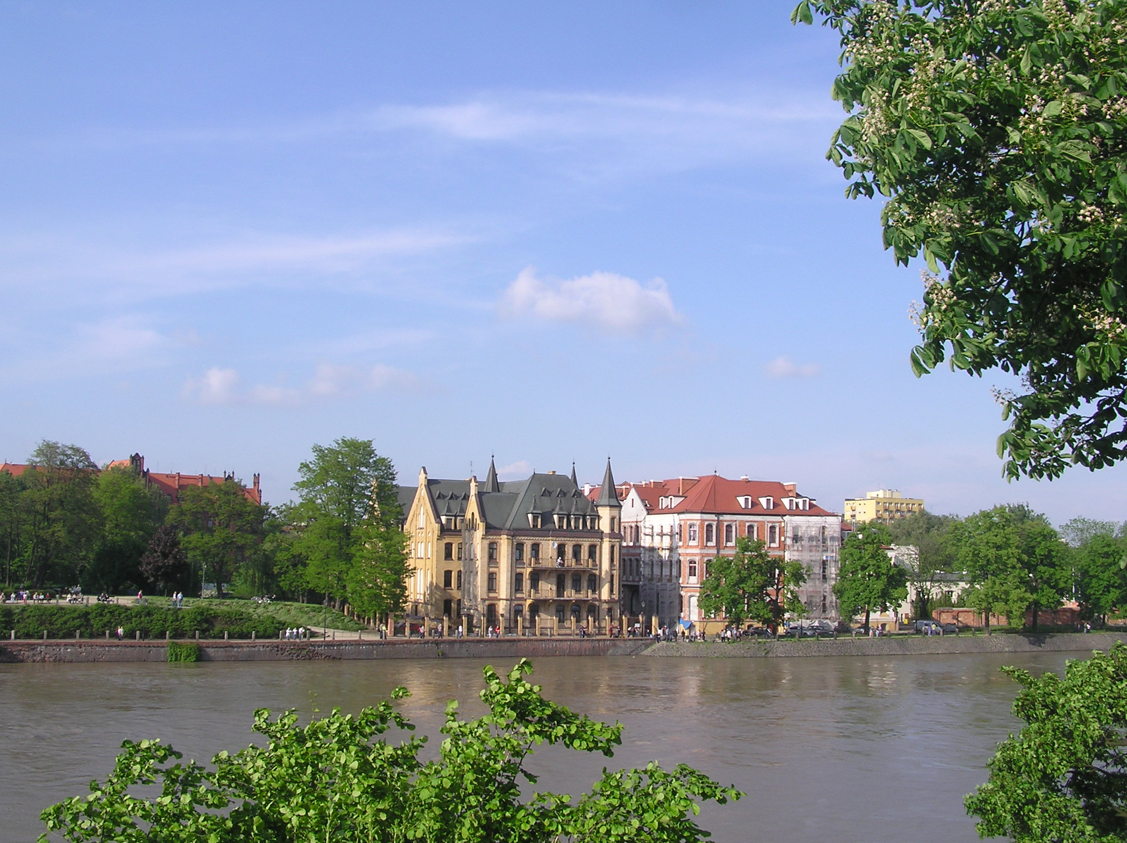 Wrocław, Polish Hill, Ostrów Tumski